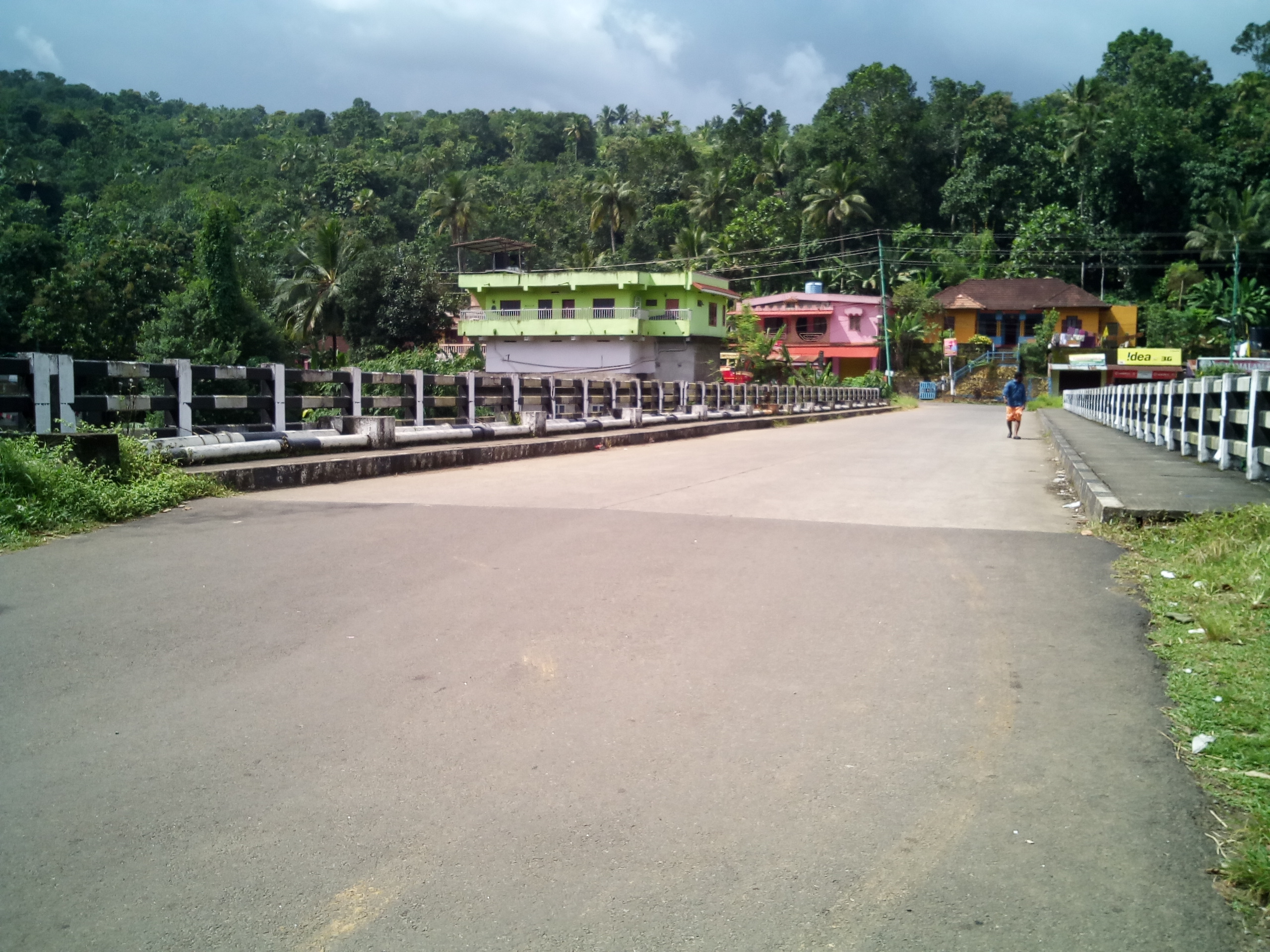 perinad another bridge